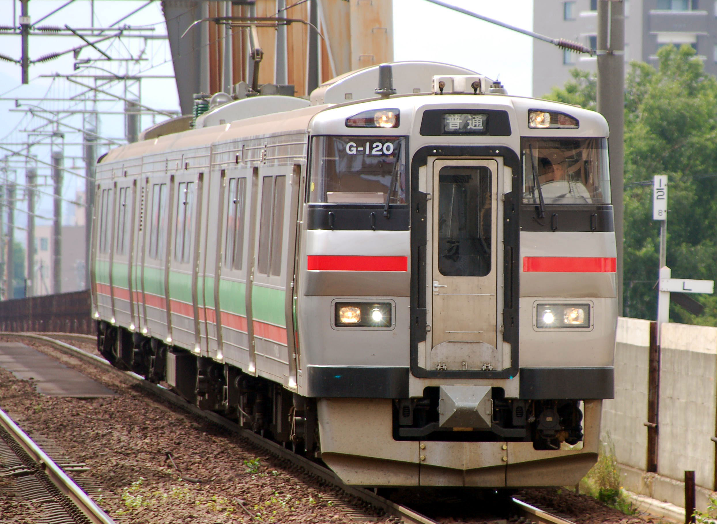 JR Hokkaido 731 series 3-car EMU set G-120 approaching Shin-Sapporo Station on the Chitose Line in Hokkaido, Japan